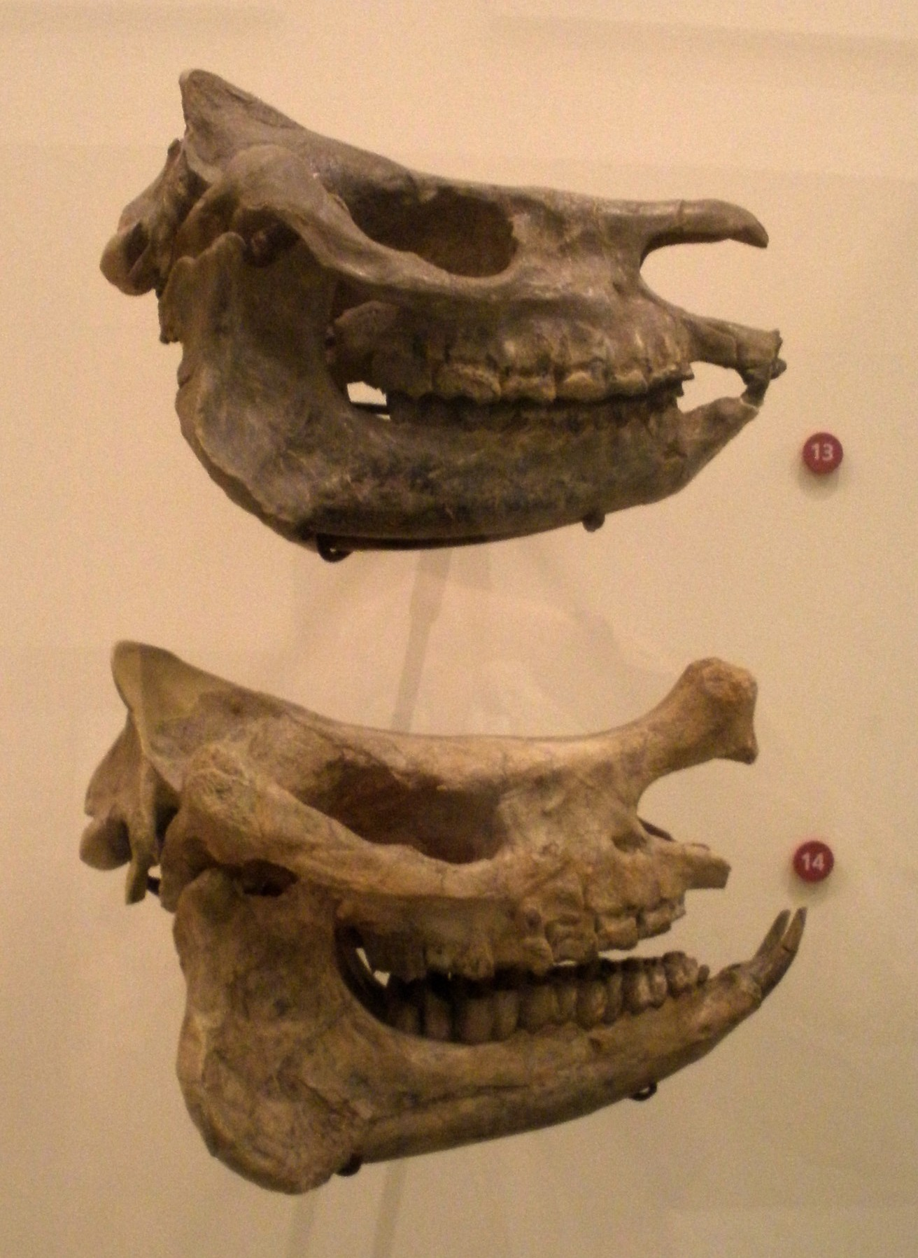 Skulls of Menoceras arikarense, a fossil rhino, in the "American Museum of Natural History", New York